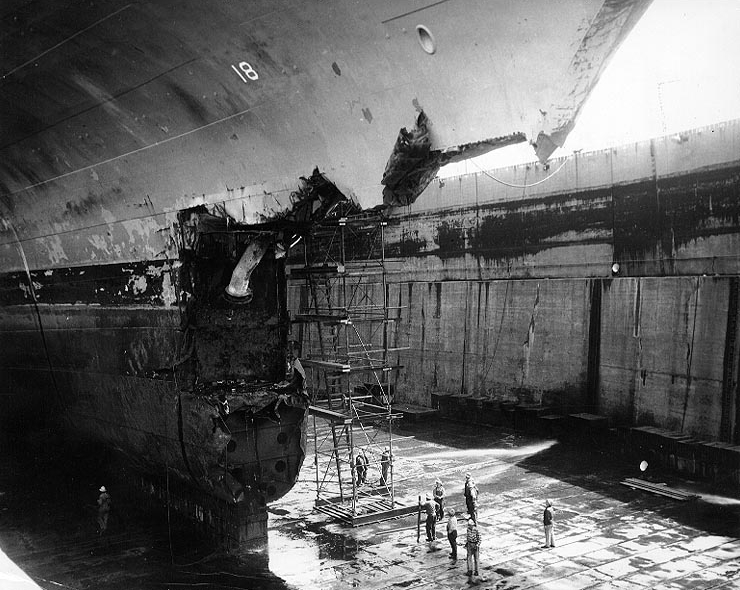 The U.S. Navy aircraft carrier USS Wasp (CV-18) in drydock at Bayonne, New Jersey (USA), showing the damage to the carrier's bow from her 26 April 1952 collision with USS Hobson (DMS-26). Wasp collided with Hobson while conducting night flying operations in the Atlantic, en route to Gibraltar. Hobson was cut in two and sank, 61 men of her crew could be rescued, but 176 were lost. Wasp sustained no personnel casualties but her bow was severely damaged. As the carrier was urgently needed for duty in the Mediterranean, Wasp entered drydock at Bayonne on 8 May. Her damaged bow was immediately cleared out with blow torches and the following day she received the bow of USS Hornet (CV-12) which was undergoing conversion at the Brooklyn Navy Yard, New York. Her repair was completed in only 10 days, enabling the carrier to get underway on 21 May and resume her deployment just three days later.